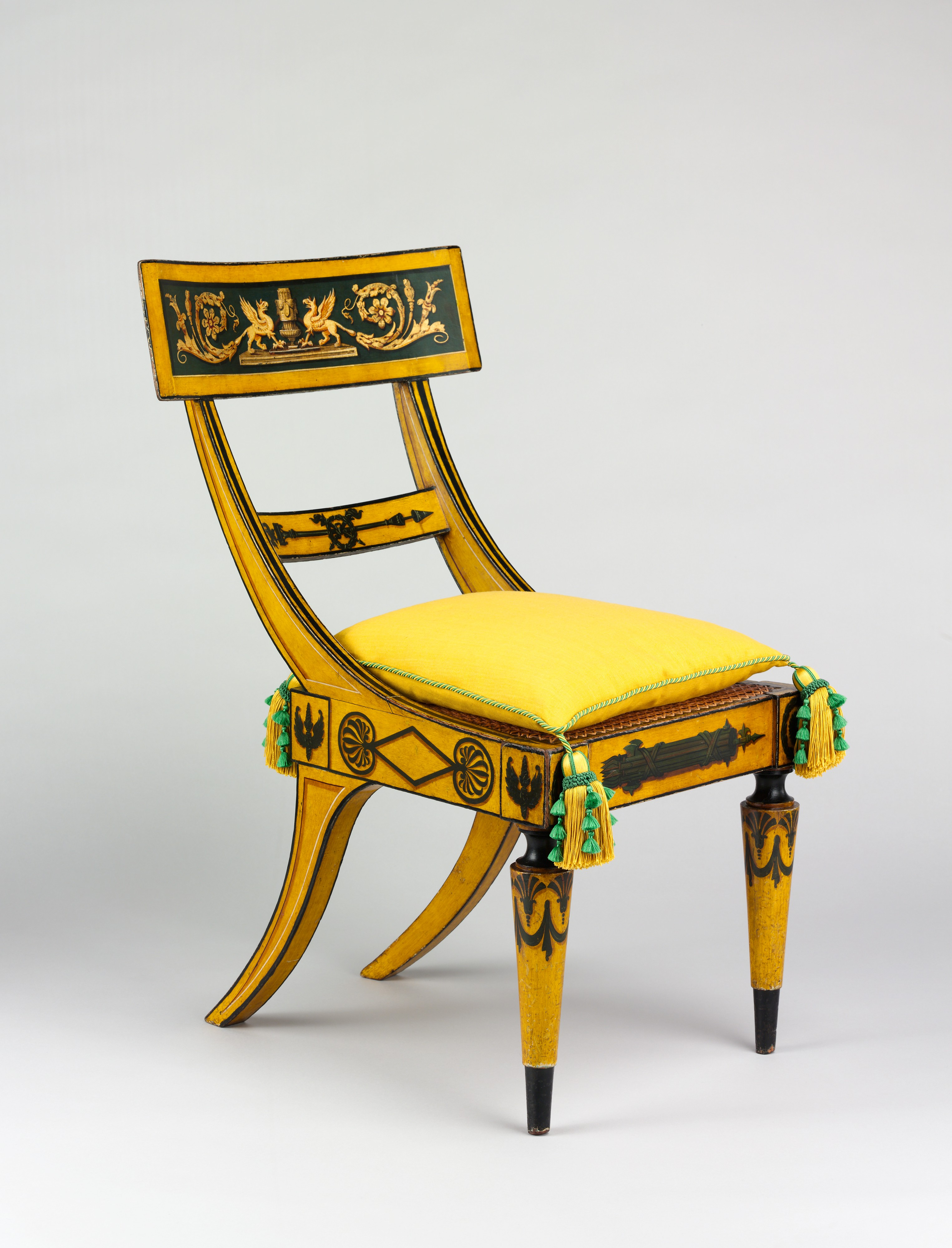 This brilliantly conceived and handsomely executed chair derives its broad, deeply curved crest tablet from the ancient Greek klismos form, and its turned front legs from Roman prototypes. During the James Madison administration (1809–17), the architect Benjamin Latrobe designed a suite of painted furniture for the White House in the latest Grecian style. Although the suite was destroyed in a fire in 1814, drawings for it bearing Latrobe’s instructions to the Baltimore fancy chair makers John and Hugh Finlay still exist and provide the basis for this chair's attribution. Originally part of a larger set, this chair was once used by Arunah S. Abell, founder of the "Baltimore Sun," in his country house "Wood bourne." The Metropolitan owns four chairs (65.167.5, .6, .8, .9) from the set. Others are in the collections of the High Museum, Atlanta; the Baltimore Museum of Art; and the Munson Williams Proctor Institute, Utica, New York.